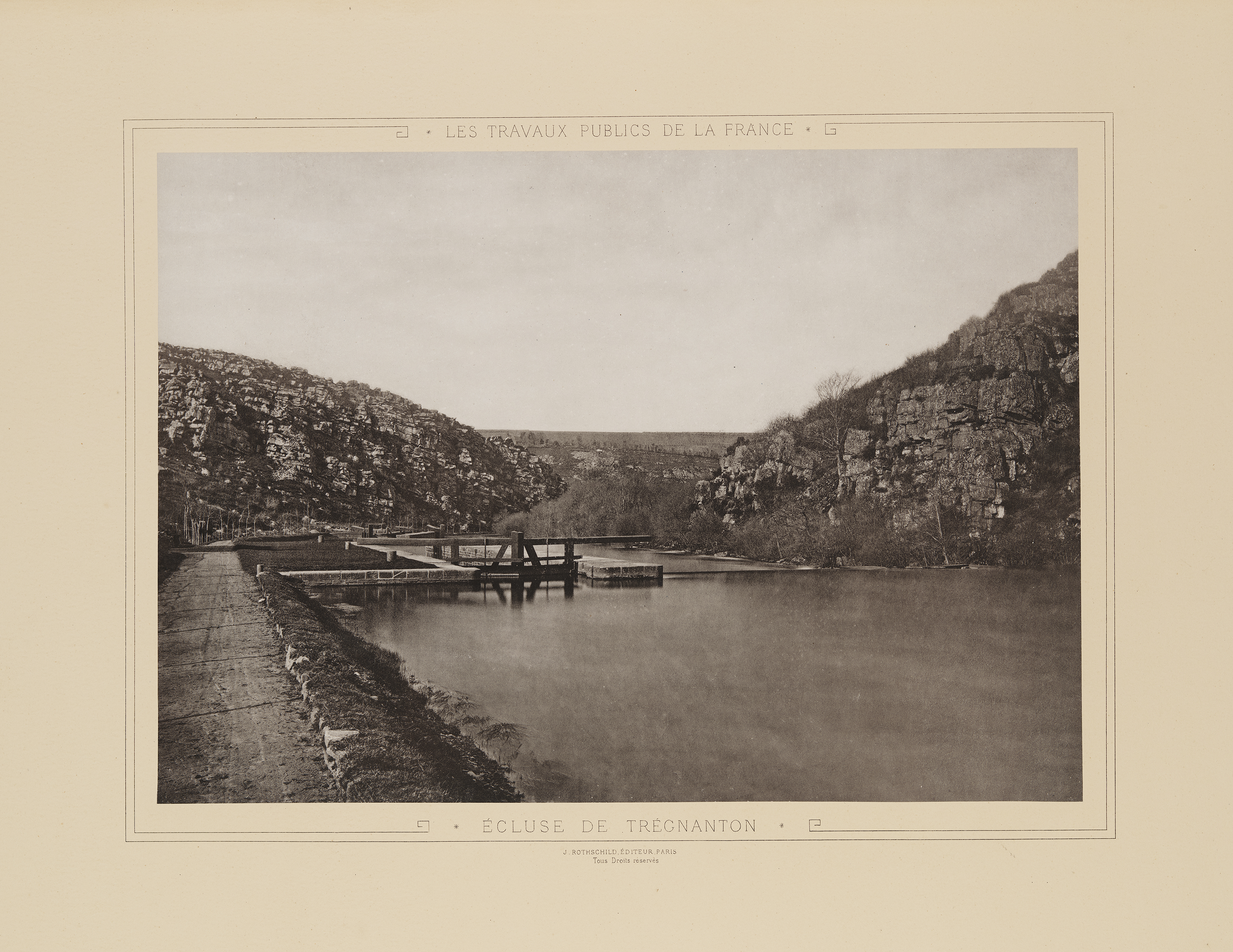 Title: Ecluse de Tregnanton Alternative Title: Tregnanton Lock Creator: Jules Duclos Date: 1883 Part Of: Les Travaux Publics de la France, Tome Troisieme: Rivieres et Canaux, Eaux des Villes - Irrigation et Assainissement des Terres Place: Saint-Gelven, Cotes-d'Armor, Brittany, France Physical Description: 1 photographic print: collotype; 26 x 35 cm on 40 x 56 cm mount File: vault_folio_2_ta71_a4_1883_3_35_opt.jpg Rights: Please cite Southern Methodist University, Central University Libraries, DeGolyer Library when using this image file. A high-quality version of this file may be obtained for a fee by contacting . For more information, see